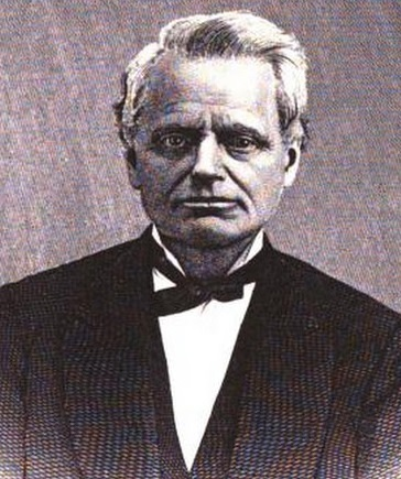 Charles Carter Comstock (Michigan Congressman)